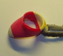 made by ulv for wikipedia. The image shows an archers thumbring made of a plastic billard ball.